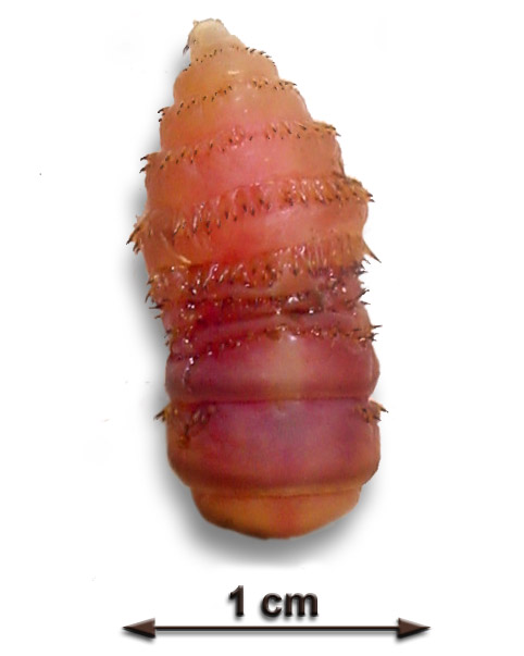 Larval stage of the Gasterophilus intestinalis